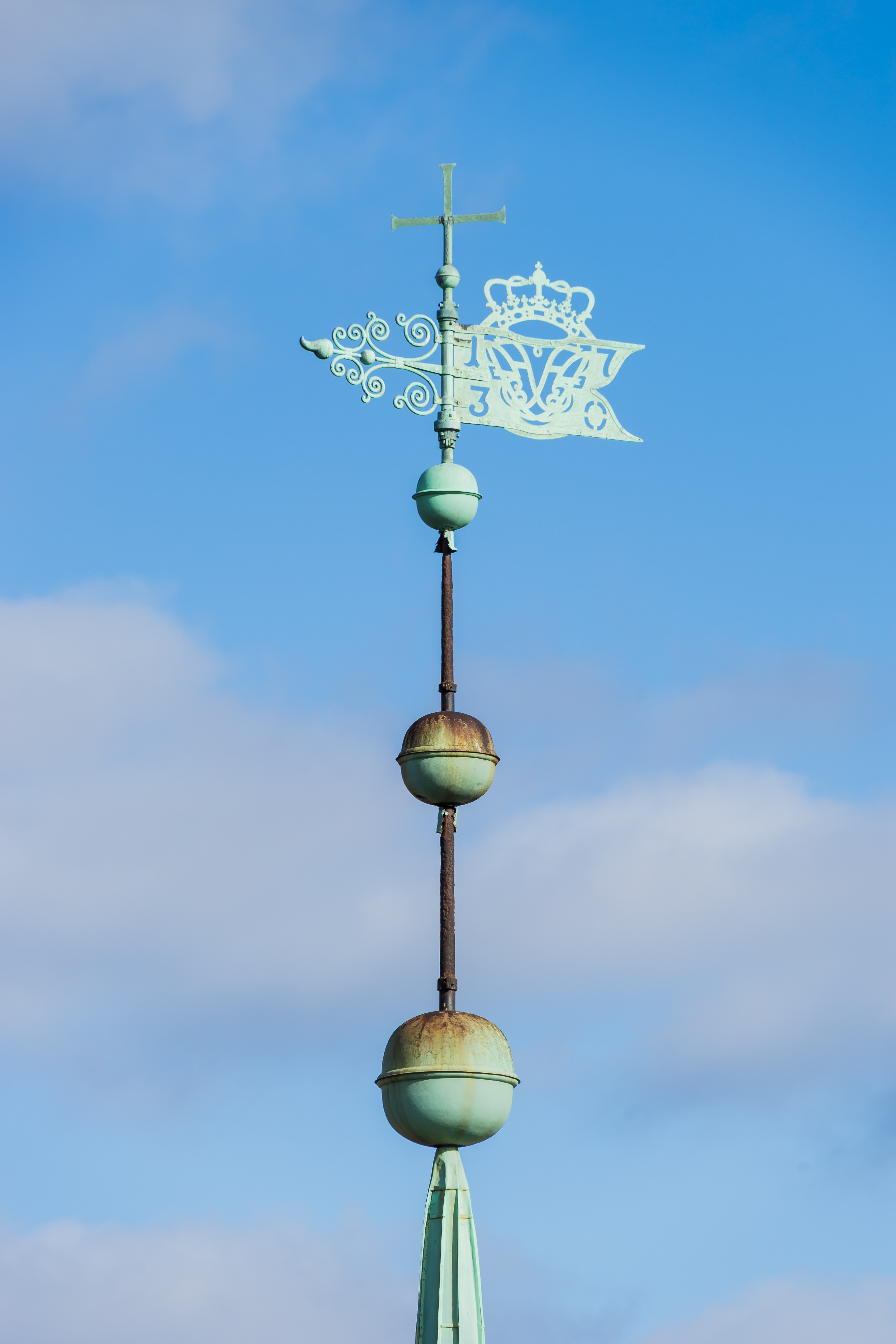 The weather vane of the Trinitatis kirke, as seen from the Rundetårn, Copenhagen, Denmark.